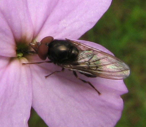 A syrphid fly, Rhingia nasica, male. Peace Valley Nature Center, Bucks County, Pennsylvania, USA.